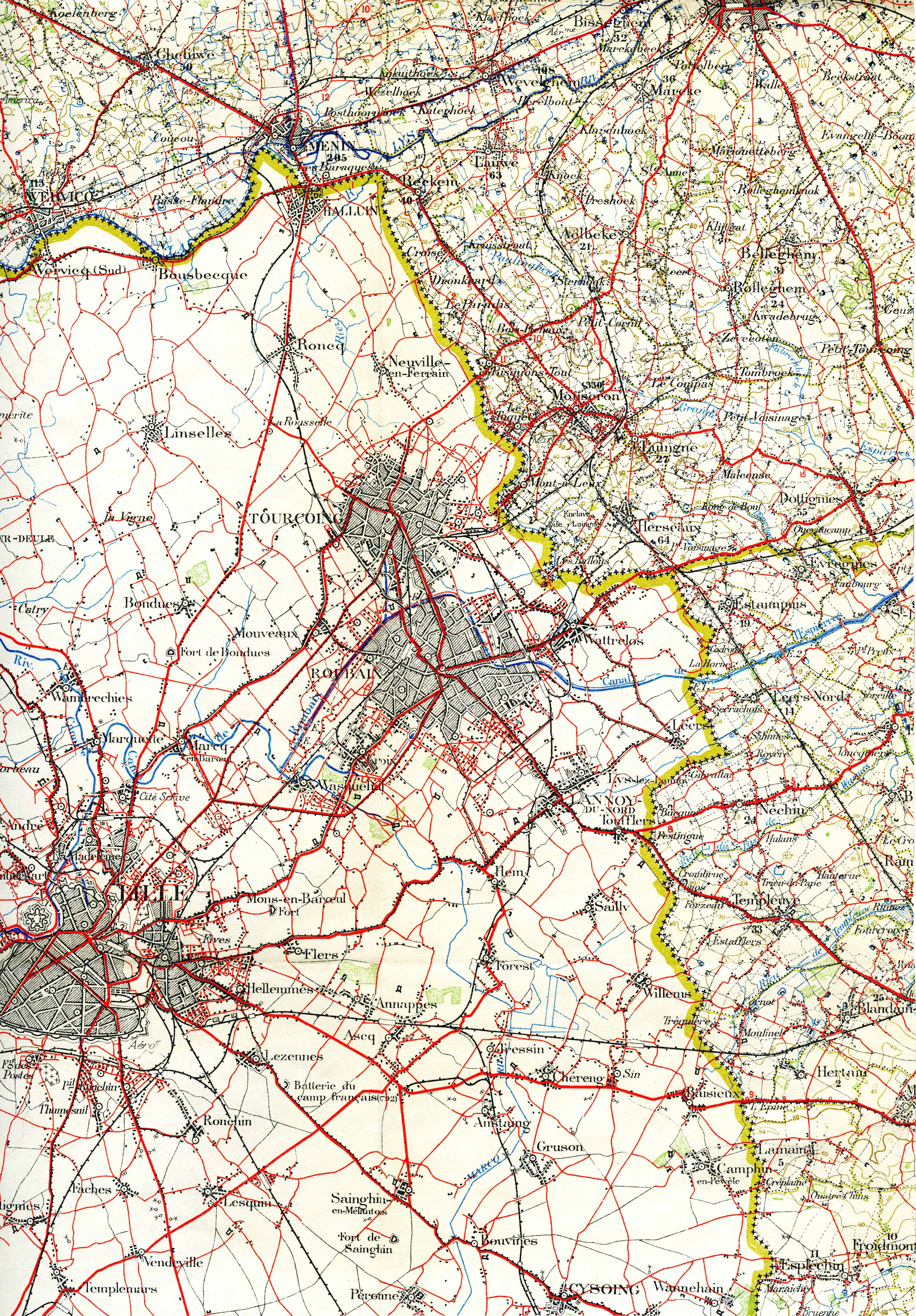 The region around Lille and the Belgian border in 1922. This shows the railways and trams around that time. This military staff map was cut up and pasted on a canvas. Railway lines are black lines with marks on one side. Smalltrack is a thinner line. If there are marks on both sides it is double track.